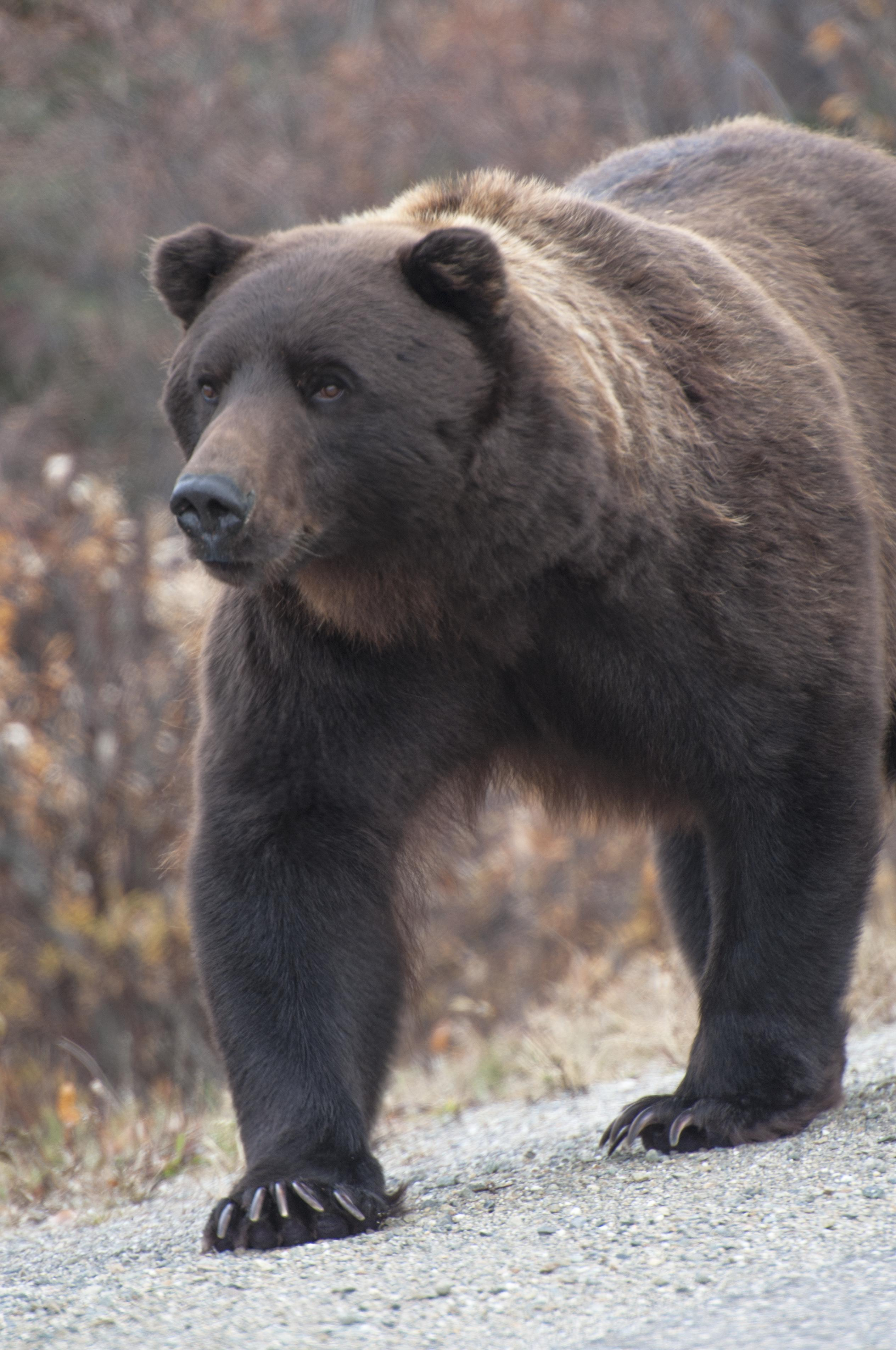 A big, healthy bear walks alongside the Park Road somewhere near Mile 10. (NPS Photo by Jay Elhard)